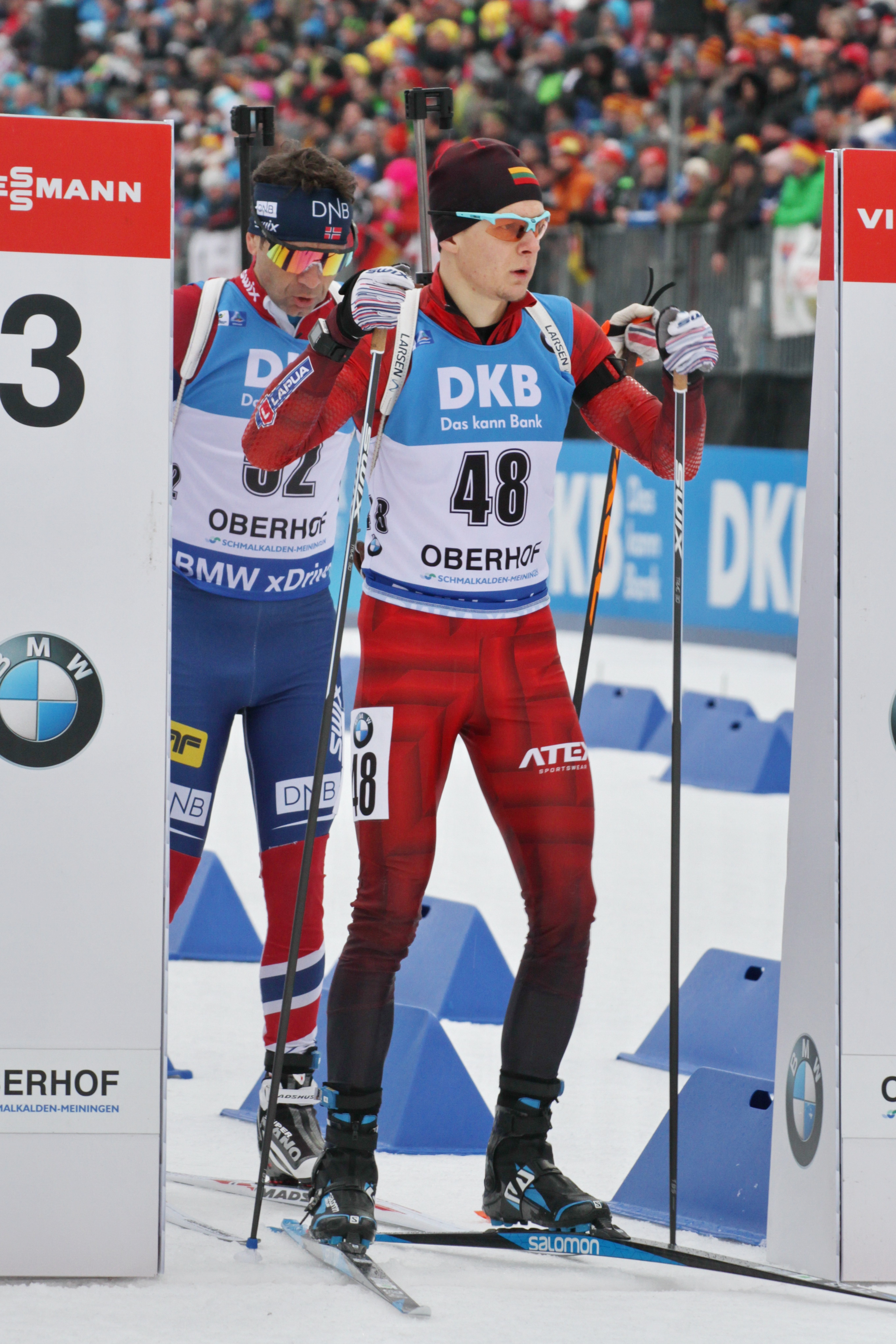 2018 Oberhof Biathlon World Cup - Pursuit Men